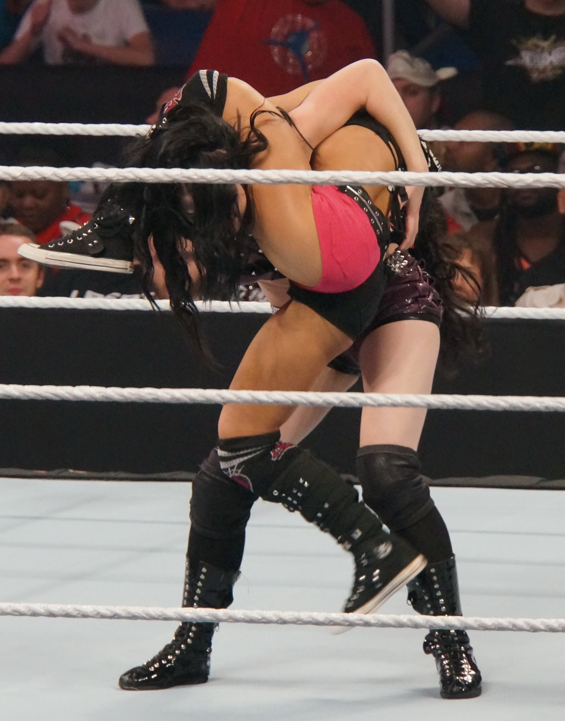 WWE Divas Champion AJ Lee attempts to lock in her trademark submission maneuver - the Black Widow - in order to secure a victory over Paige. Originally taken 4/7, cropped for focus.